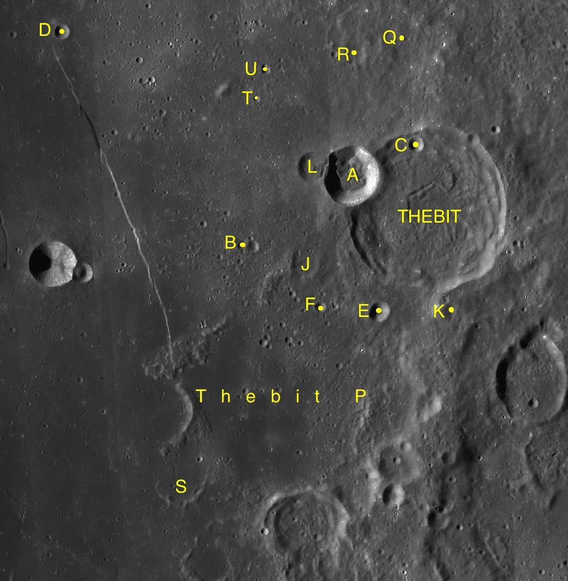 Part of the chart LAC-95 used for the presentation.